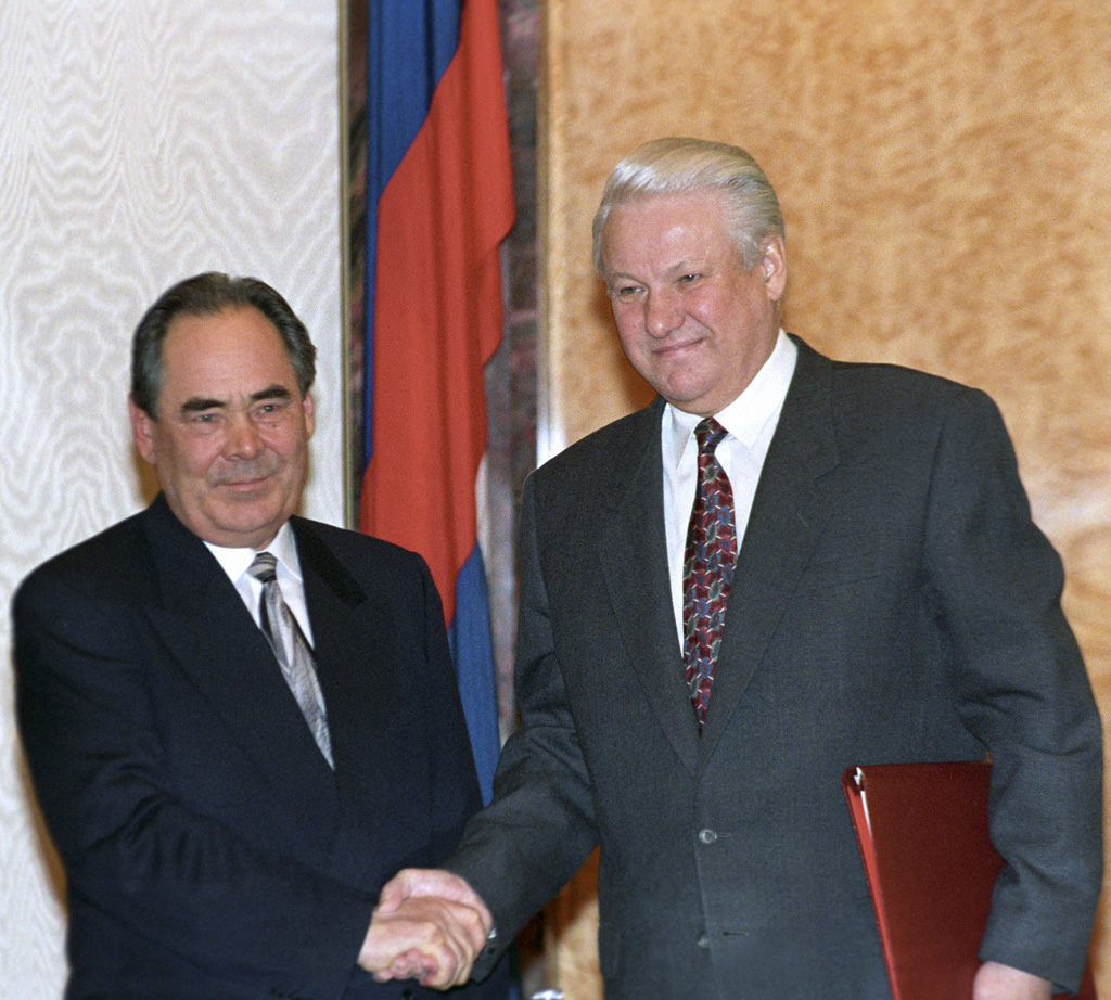 “Tatarstan President Mintimer Shaimiyev and Russian President Boris Yeltsin”. From left: Tatarstan President Mintimer Shaimiyev and Russian President Boris Yeltsin signing the Treaty on the Delimitation of Jurisdictional Subjects and Mutual Delegation of Powers between the State Bodies of the Russian Federation and the Republic of Tatarstan. The Kremlin, Moscow.